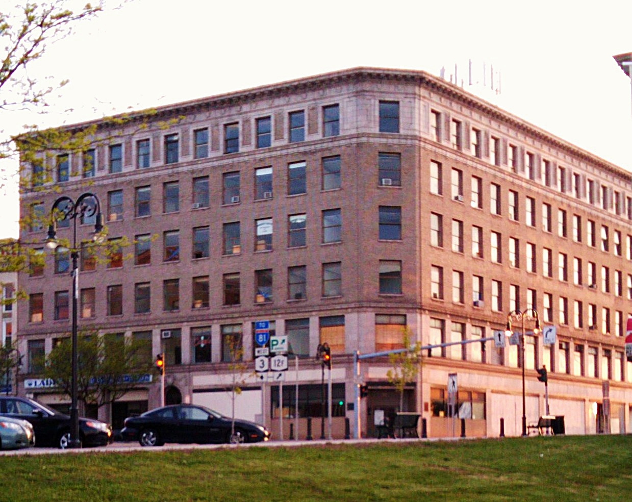 Woolworth Building, Watertown, NY. Built in 1921.